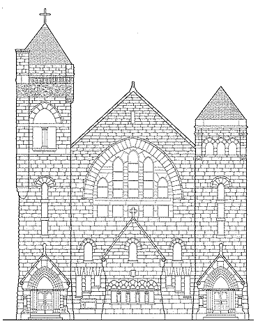 Quinn Chapel AME Church, 2401 South Wabash Avenue, Chicago (Cook County, Illinois) - cropped This file comes from the Historic American Buildings Survey (HABS), Historic American Engineering Record (HAER) or Historic American Landscapes Survey (HALS). These are programs of the National Park Service established for the purpose of documenting historic places. Records consist of measured drawings, archival photographs, and written reports. This tag does not indicate the copyright status of the attached work. A normal copyright tag is still required. See Commons:Licensing for more information. English | +/− This work is in the public domain in the United States because it is a work prepared by an officer or employee of the United States Government as part of that person’s official duties under the terms of Title 17, Chapter 1, Section 105 of the US Code. See Copyright. Note: This only applies to original works of the Federal Government and not to the work of any individual U.S. state, territory, commonwealth, county, municipality, or any other subdivision. This template also does not apply to postage stamp designs published by the United States Postal Service since 1978. (See 206.02(b) of Compendium II: Copyright Office Practices). It also does not apply to certain US coins; see The US Mint Terms of Use. This file has been identified as being free of known restrictions under copyright law, including all related and neighboring rights.